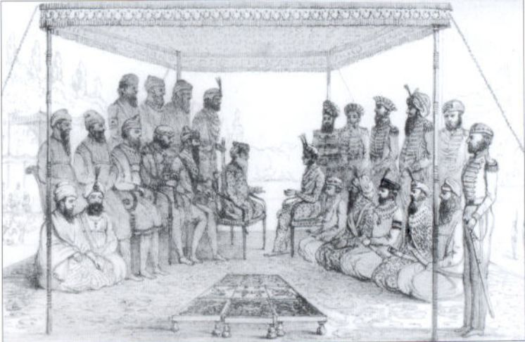 Court and Camp of Runjeet Singh - pg203